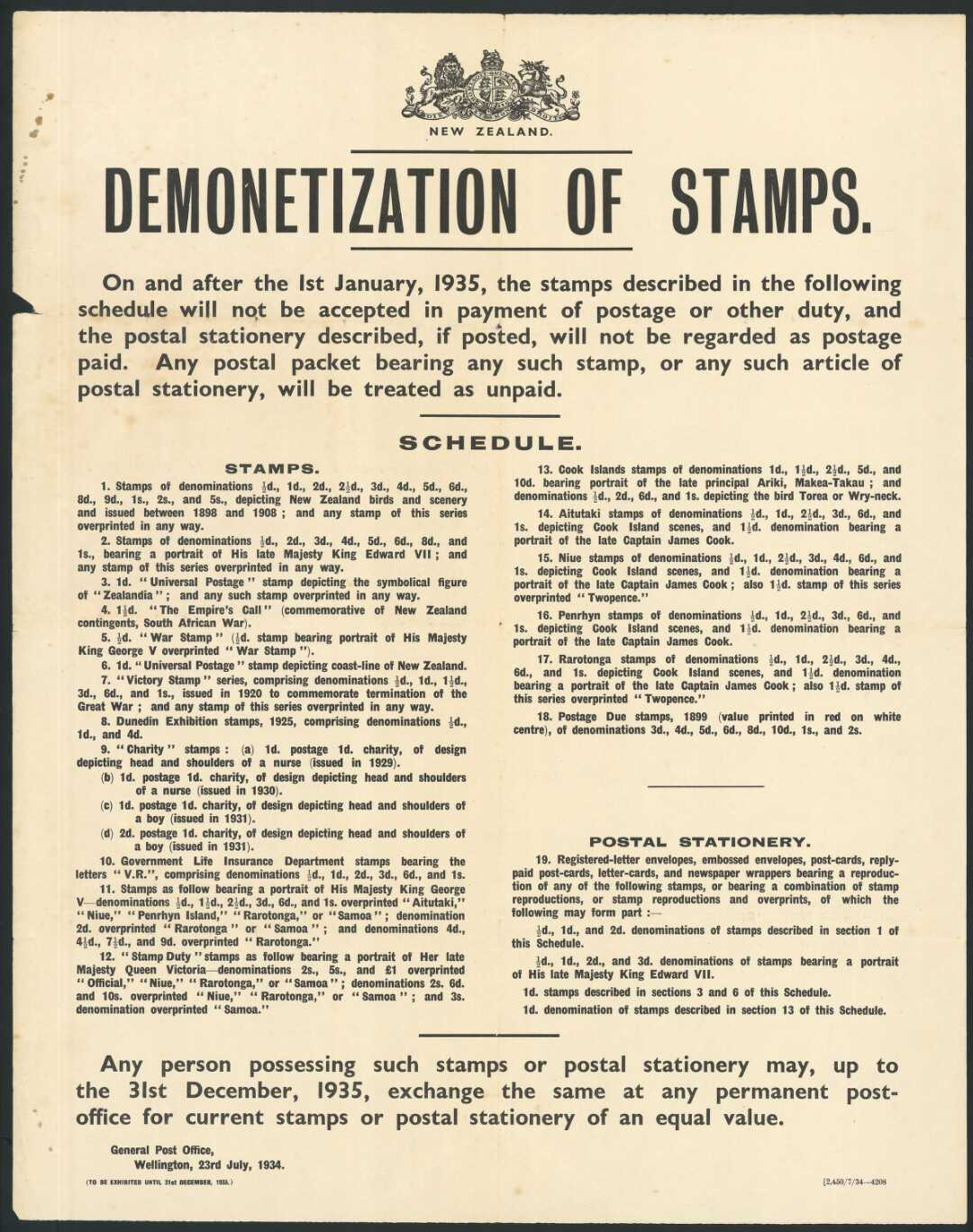 New Zealand Post Office :Demonetization of stamps. On and after the 1st January 1935, the stamps described in the following schedule will not be accepted ... Any person possessing such stamps or postal stationery may, up to 31st December 1935, exchange the same at any permanent post-office for current stamps or postal stationery of an equal value. General Post Office, Wellington, 23rd July 1934. 2,450/7/34 - 4208